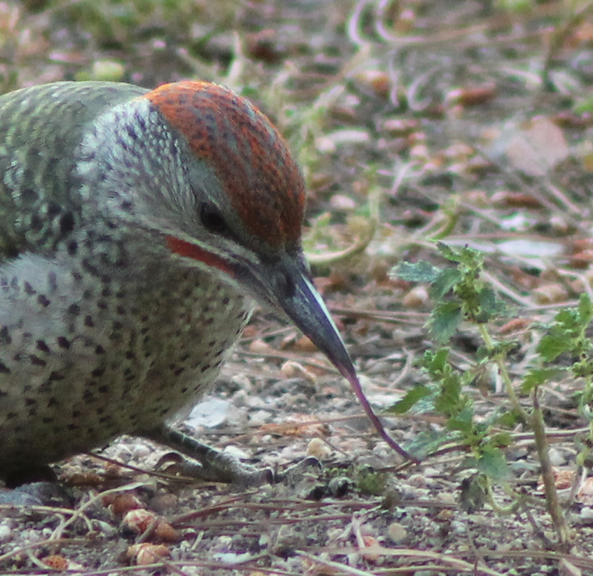 A juvenile male Iberian Woodpecker (Picus sharpei) in Madrid (Spain) eating ants with the help of his tongue.